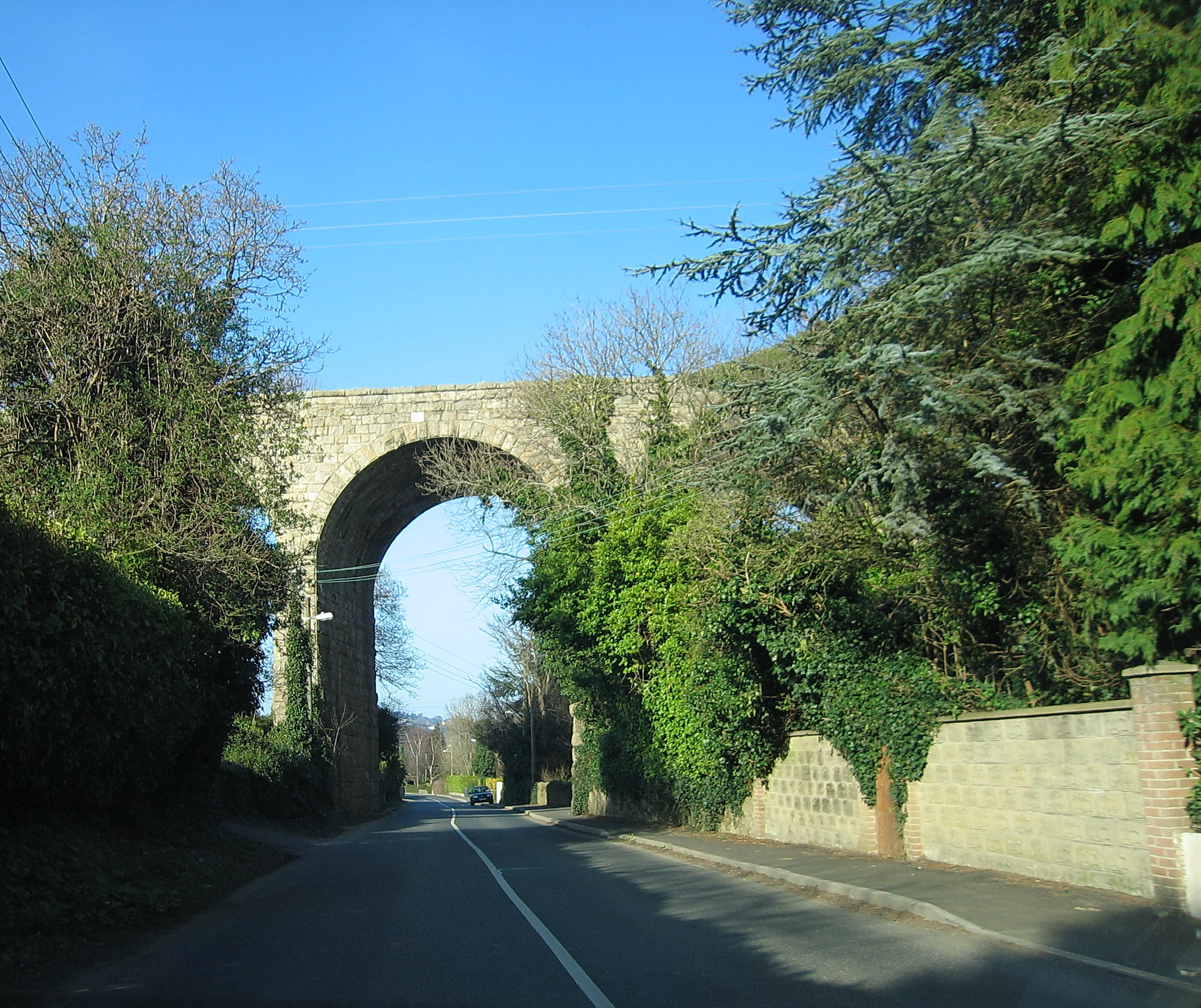 The old Harcourt Street railway line crossing the R116 Cherrywood Road in Brides Glen, Loughlinstown